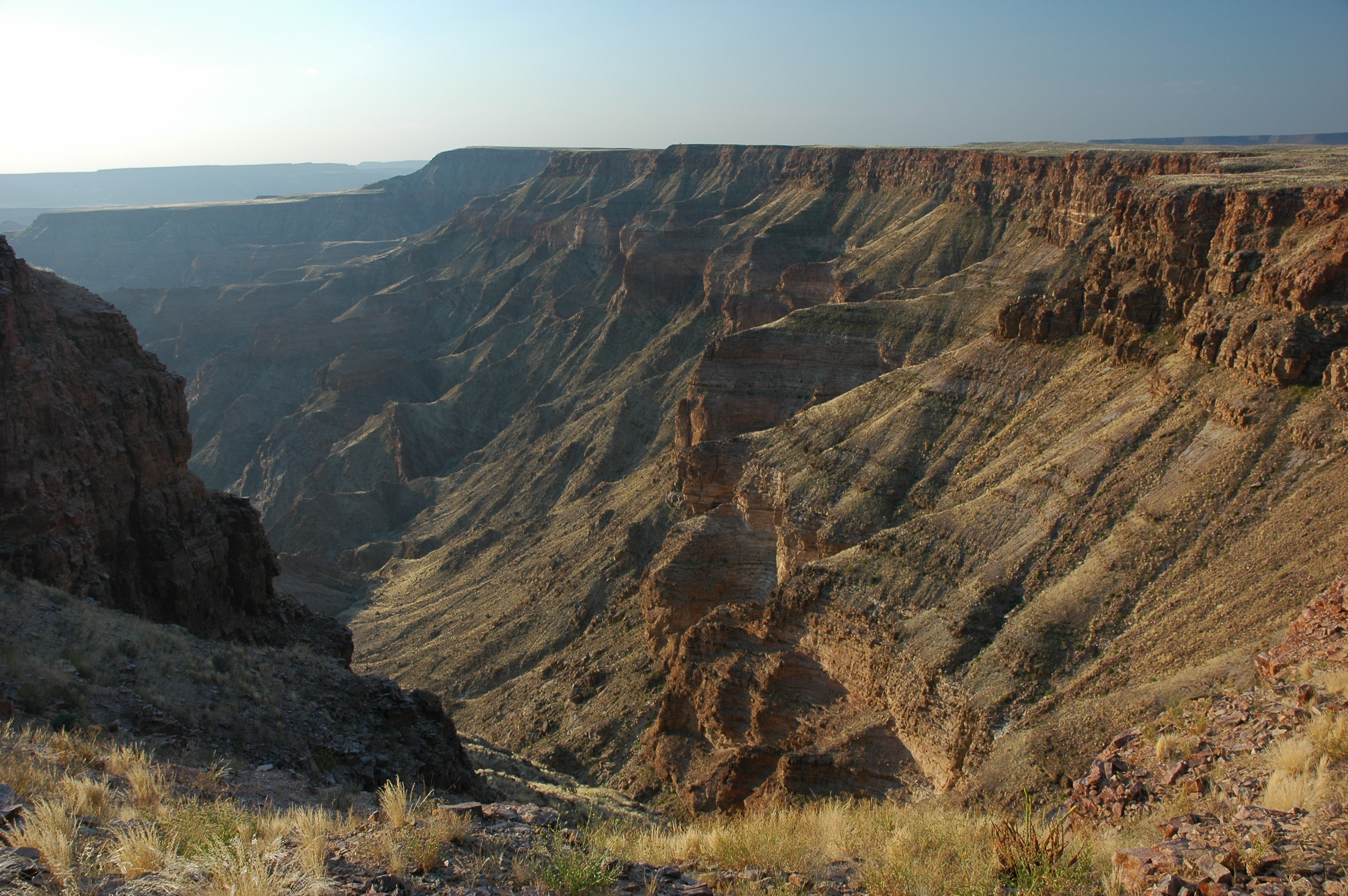 Namibie Fishriver Canyon Photographie prise par GIRAUD Patrick